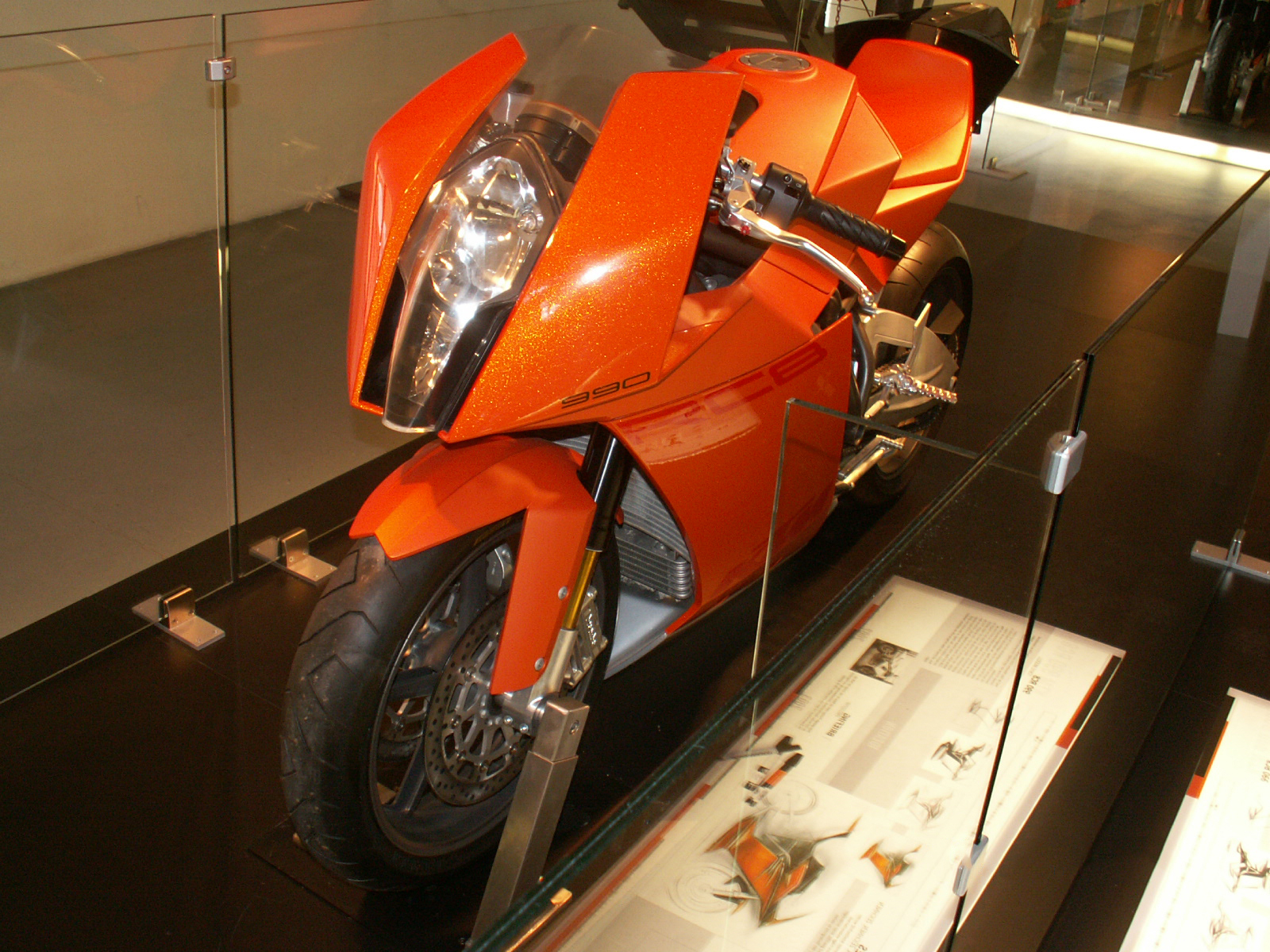 Fotographed at a exhibition in Vienna Design Forum march 2006